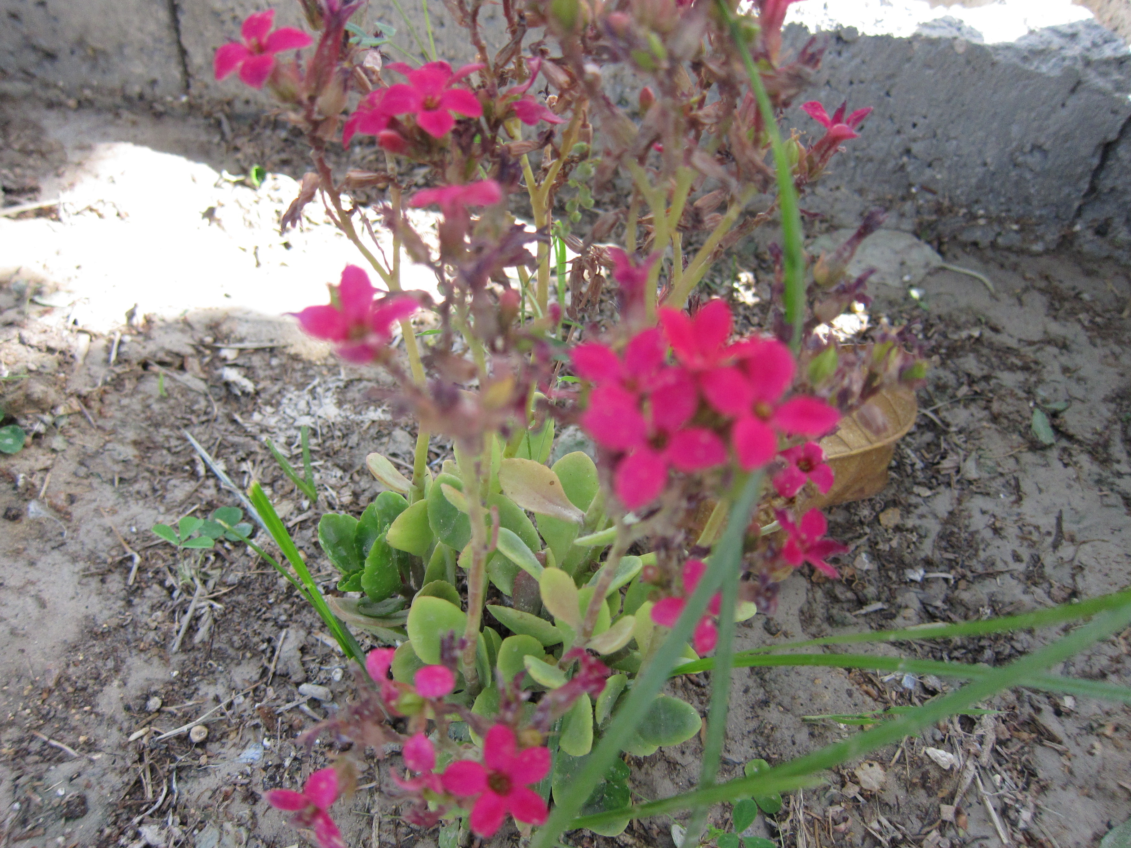 Kalanchoe pinnata, Crassulaceae family ഇലമുളച്ചി